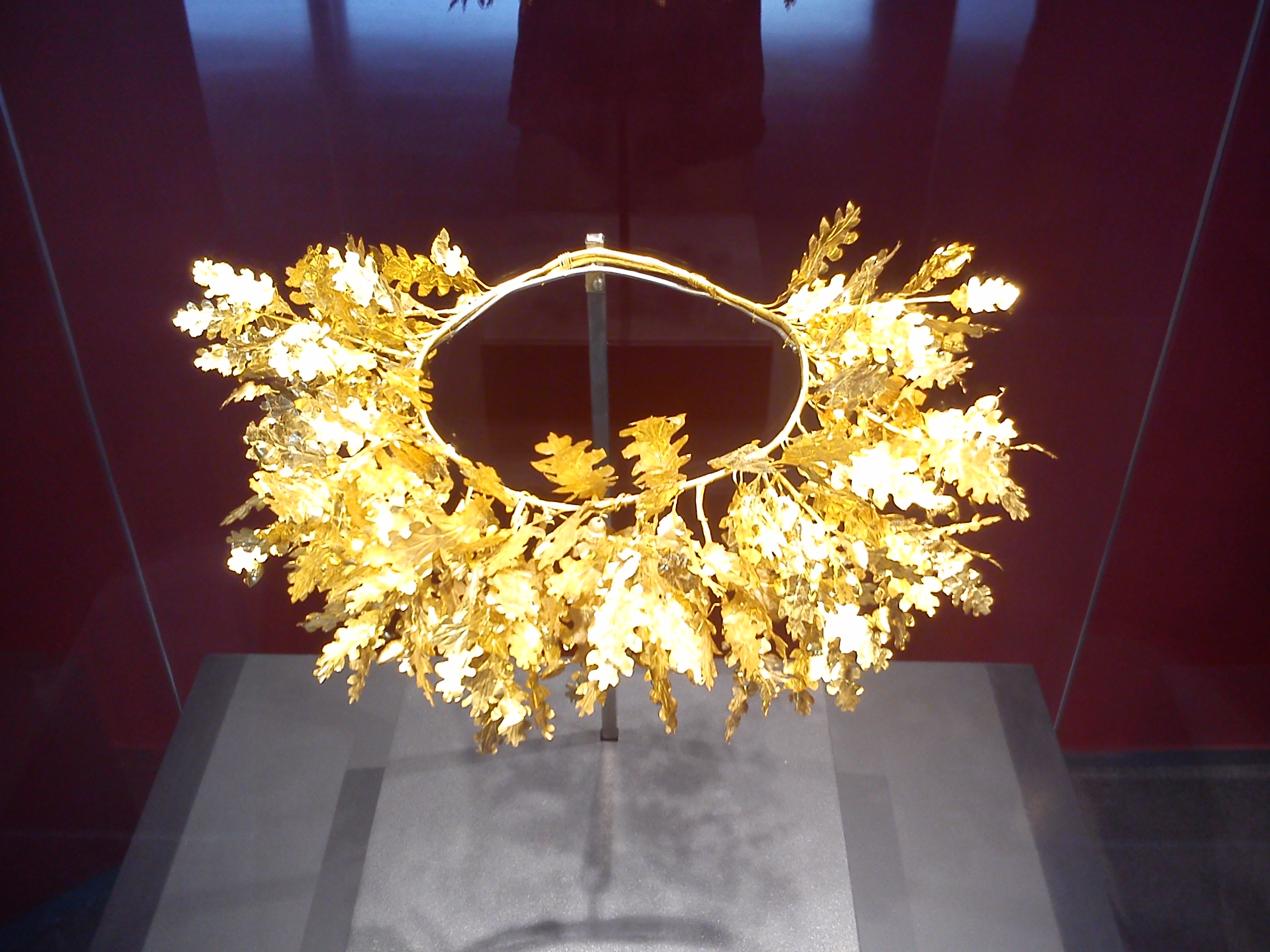 Royal crown from tomb in Aigai